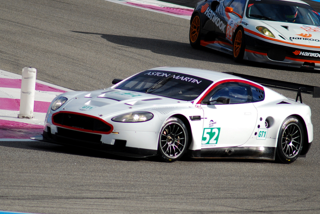 52 Young Driver AMR driven by Christoffer Nygaard.